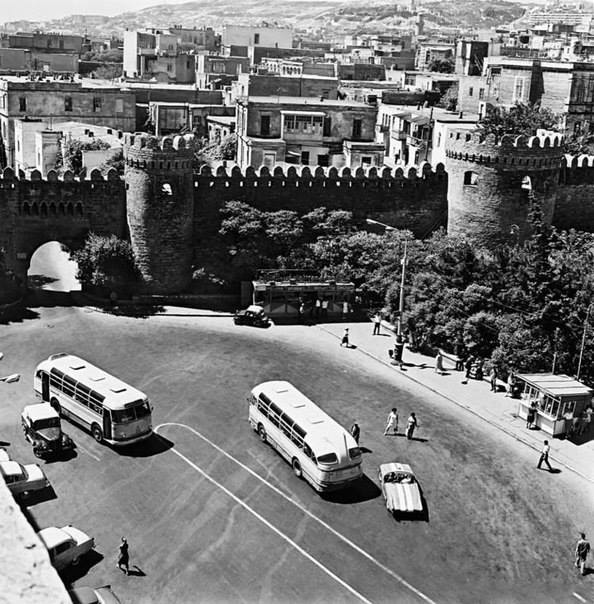 Sport car in Baku